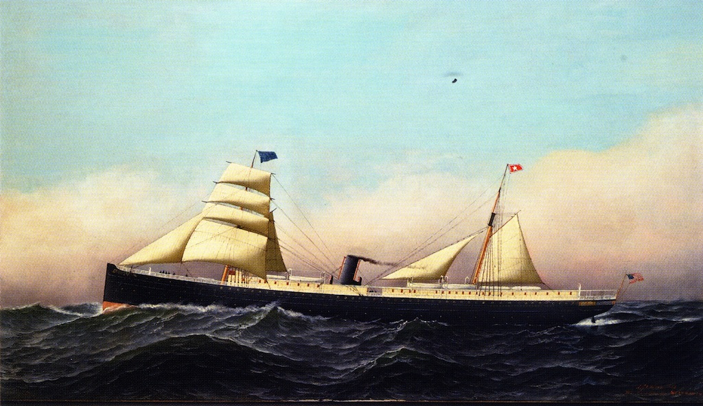 A painting of the SS Columbia under full sail and steam in 1880. She was a brigantine rigged single screw steamship built for service between San Francisco and Portland and was also the first commercial use of Thomas Edison's light bulb. She sank on July 21, 1907 following a collision with the steam schooner San Pedro.